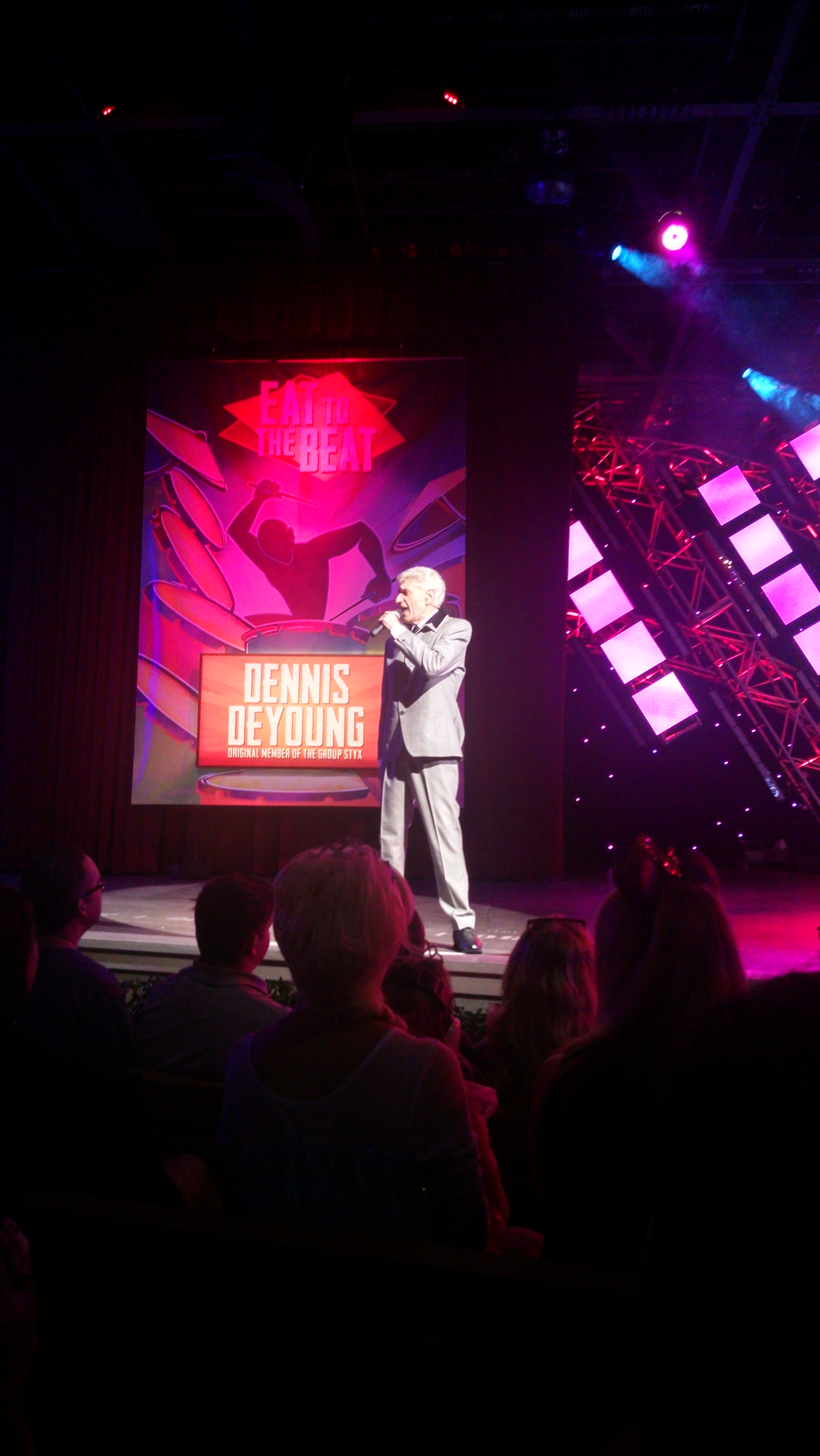 Dennis DeYoung at Eat to the Beat Conecert Series at Epcot